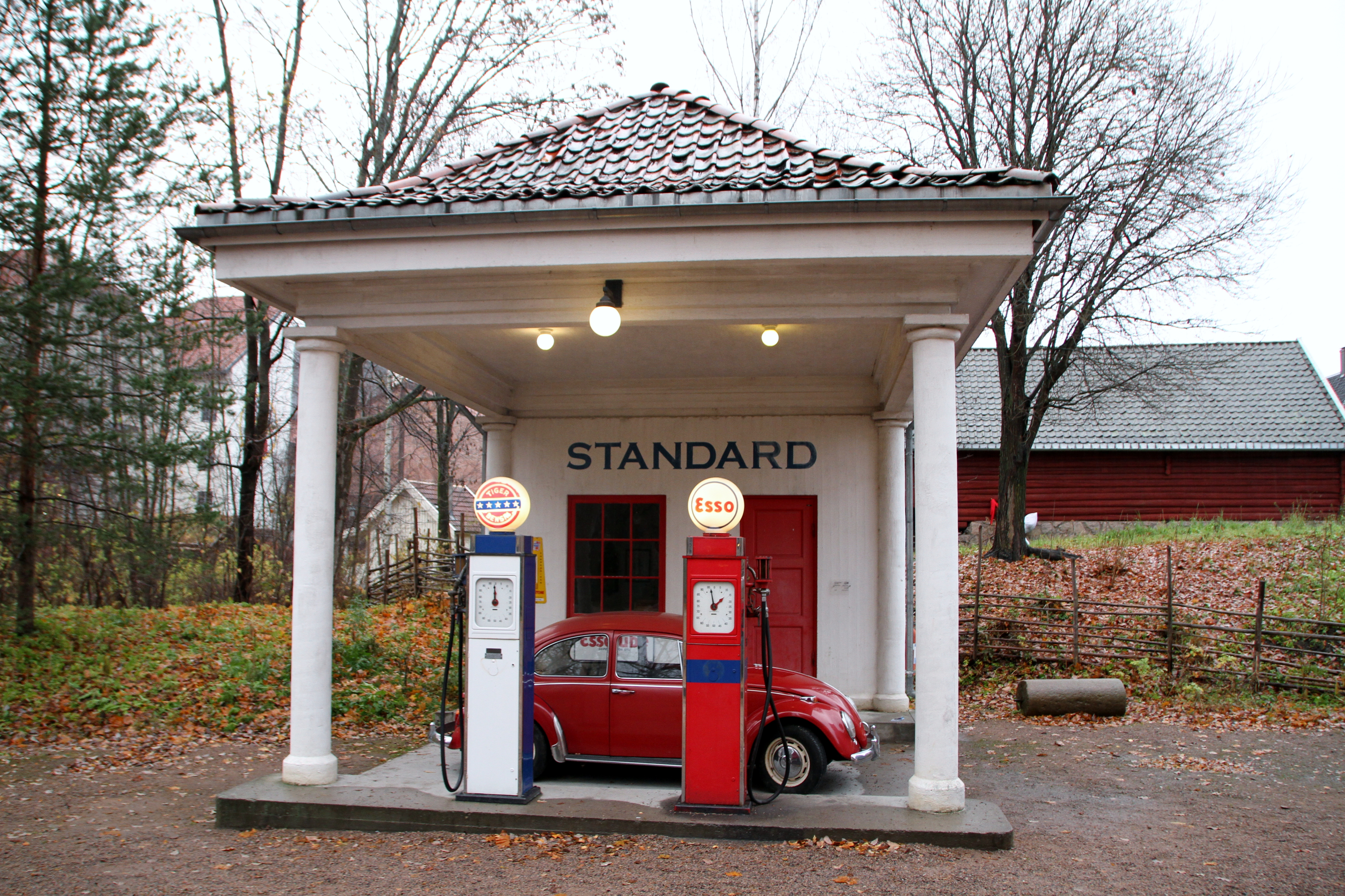 Esso (Standard Oil) petrol station, moved from Wessels gt 15 (Oslo) to the Norwegian Culture Museum (Norsk folkemuseum), Bygdøy.